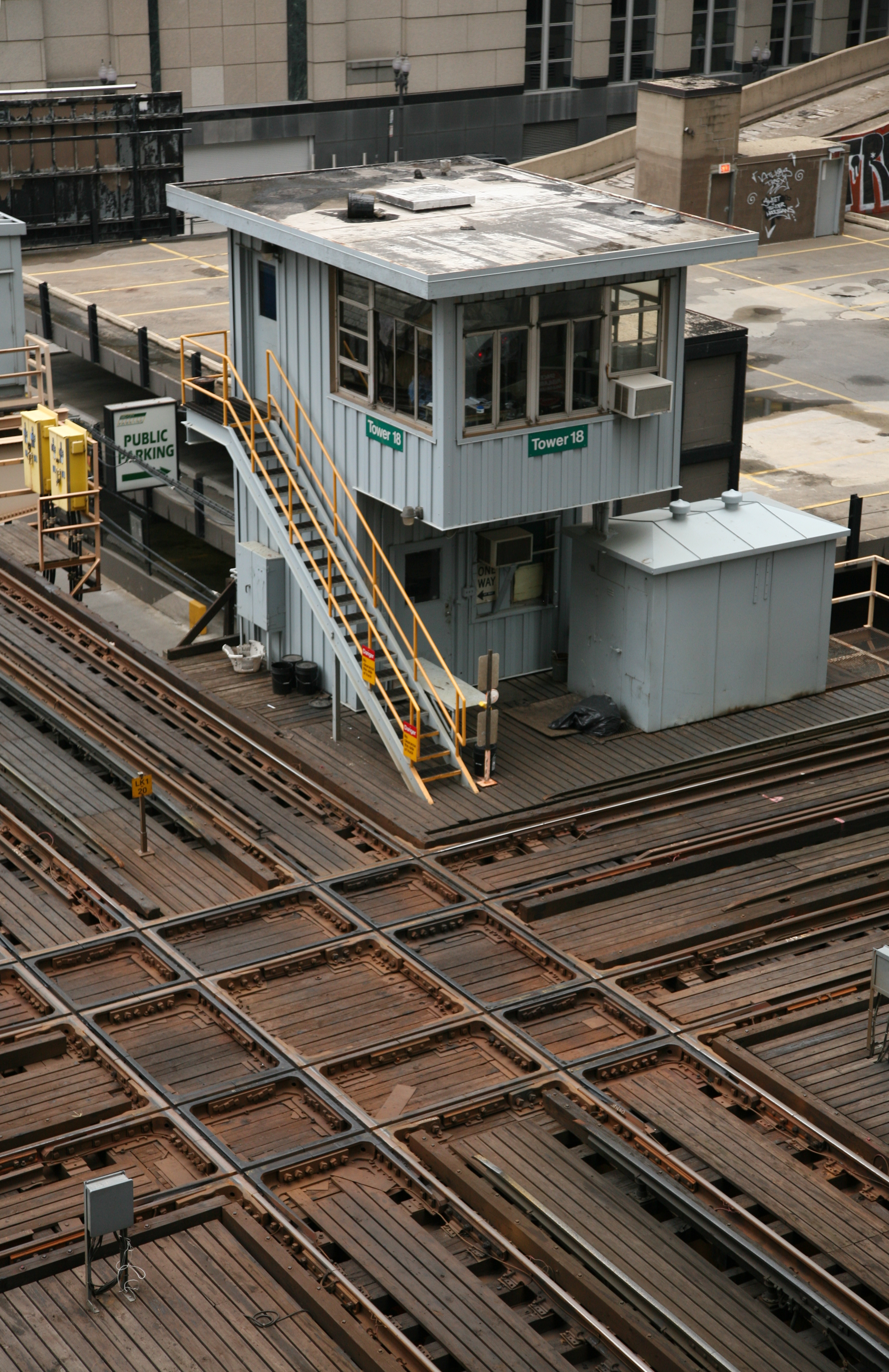 Control tower 18 at the cross junction in the northwest corner of the Loop in Chicago.